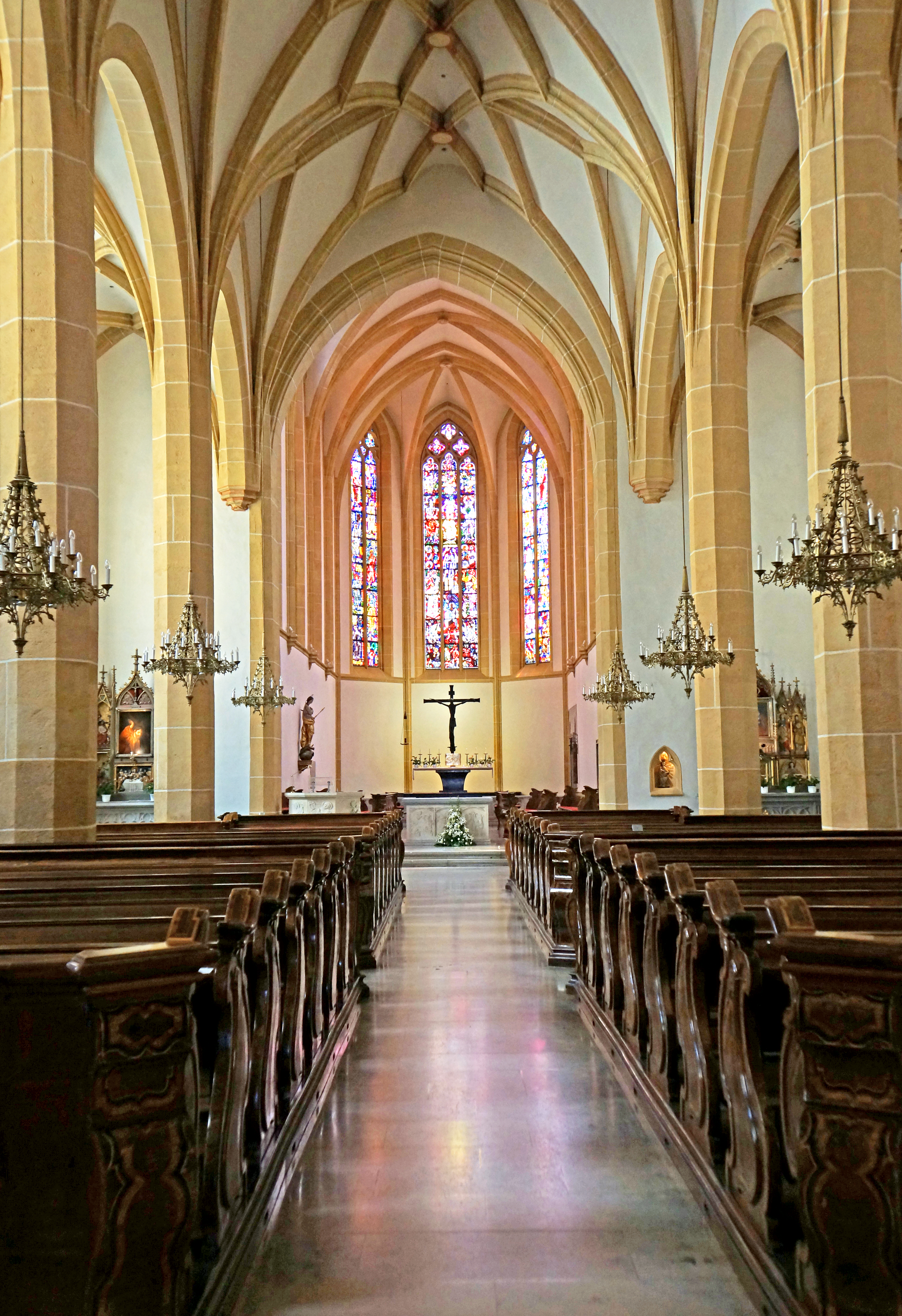 The Franciscan Church and Franciscan Monastery are in the centre of the city of Graz. The monastery was founded by the Franciscan order in 1239, who still own it. In the church, a high but narrow 14th-century chancel contrasts with the comparatively low and wide nave. The chancel was gutted by a bomb in World War II, and subsequently rebuilt with a new contemporary interior.